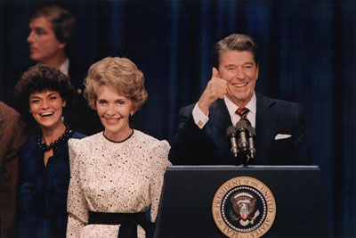 President Reagan, Mrs. Reagan and daughter-in-law Doria Reagan celebrate his re-election to a second term as President on the stage of the Los Angeles Ballroom